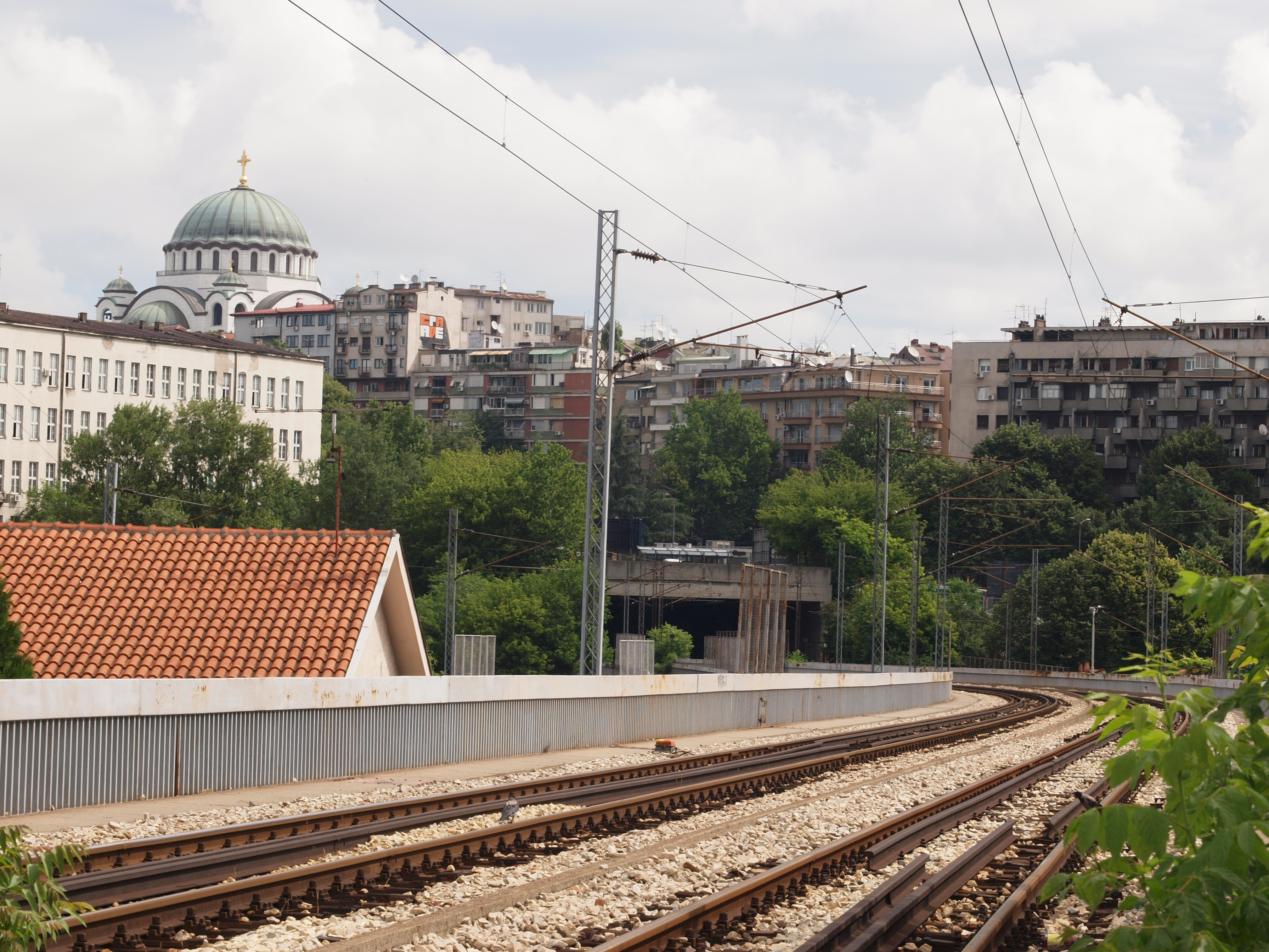 Belgrade railway junction, Vracar